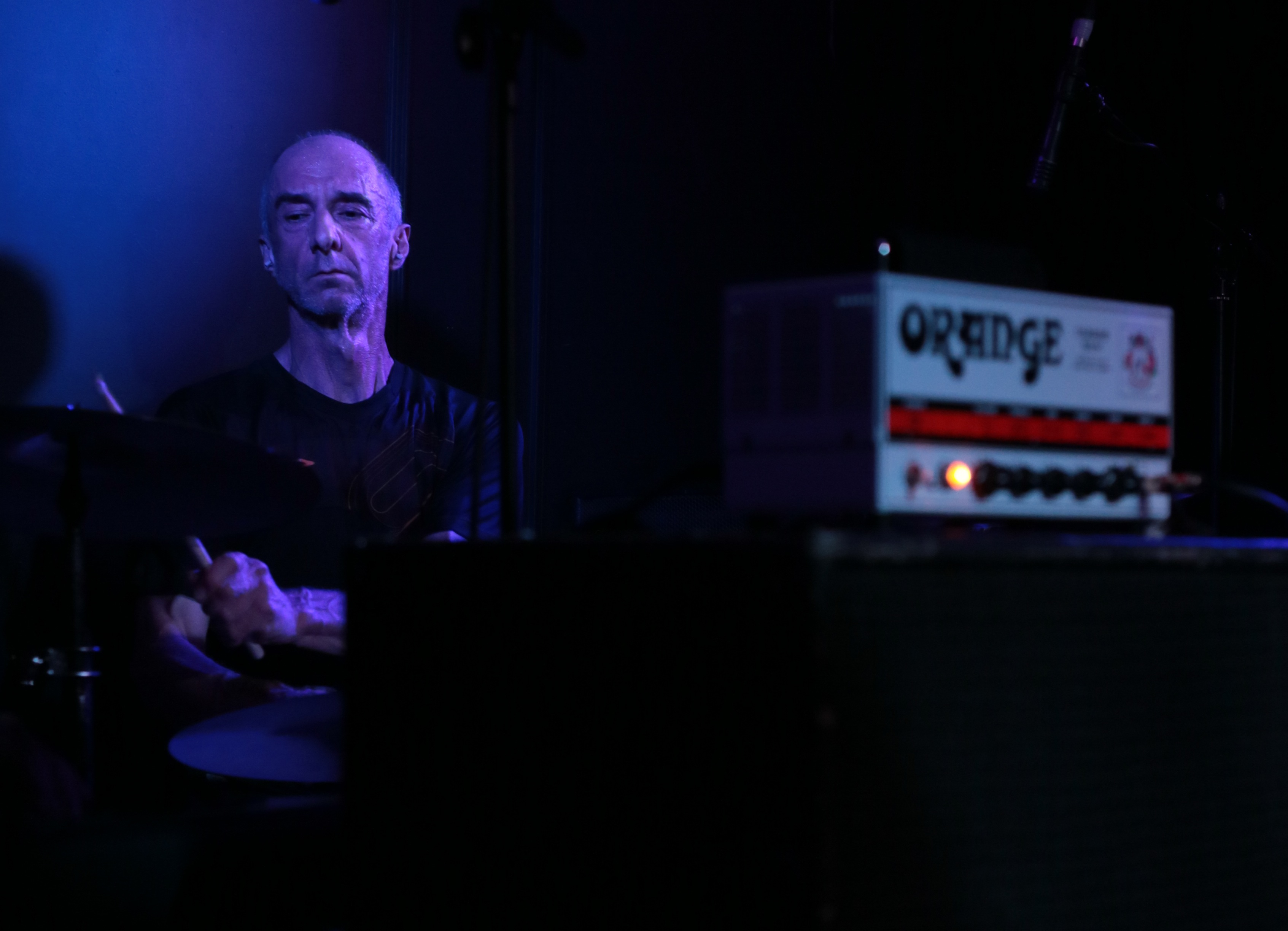 Robert Grey (aka Robert Gotobed), sep 2013. Photo by Fergus Kelly.